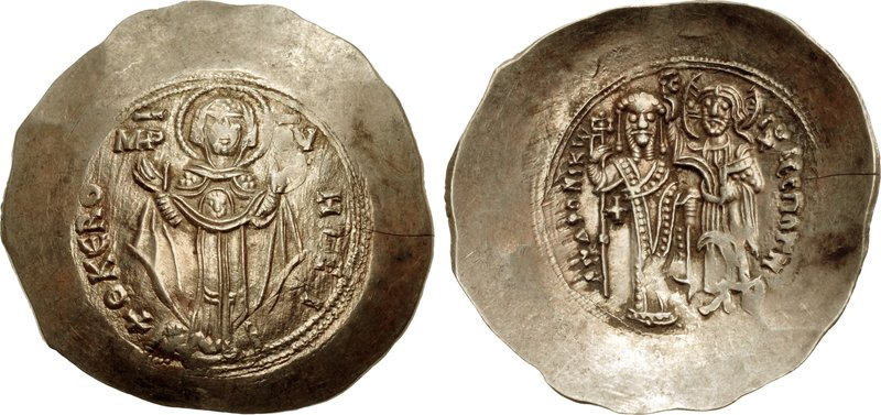 Andronicus I Comnenus. 1183-1185. EL Aspron Trachy (30mm, 4.59 g, 6h). Constantinople mint. Struck 1183-1185. The Theotokos, orans, standing facing on daïs / Christ standing facing, crowning Andronicus to left, holding labarum and akakia. DOC 2b; SB 1984. Near EF, flan crack.